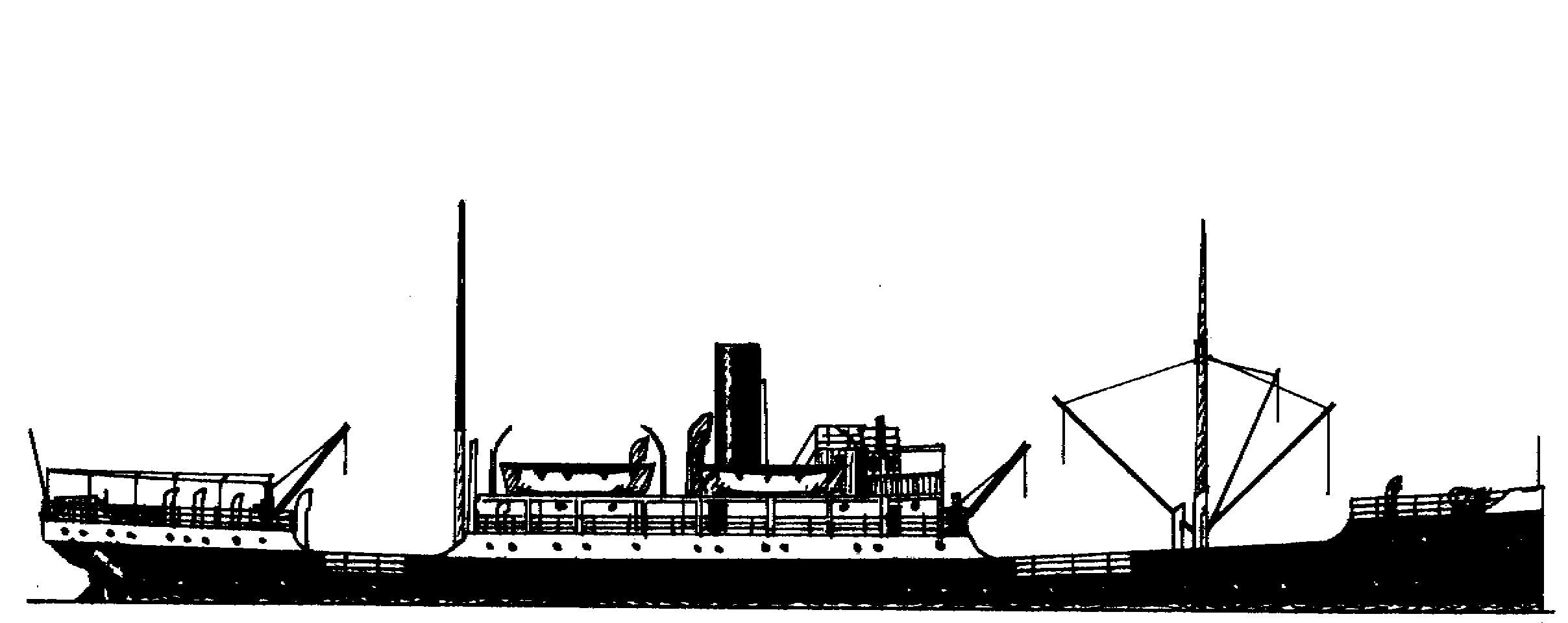 Steamer SCHWAN (1907) employed in the England service of Argo Reederei